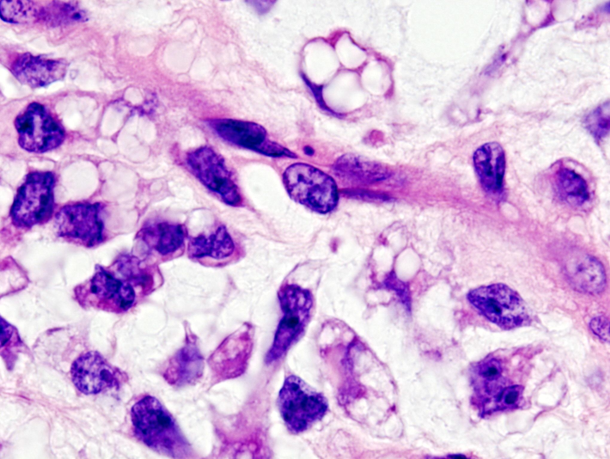 Histopathologic image of myxoid liposarcoma arising in the deep soft tissue of the thigh. H & E stain. The same case as shown in a file "Myxoid_liposarcoma_(1).jpg".